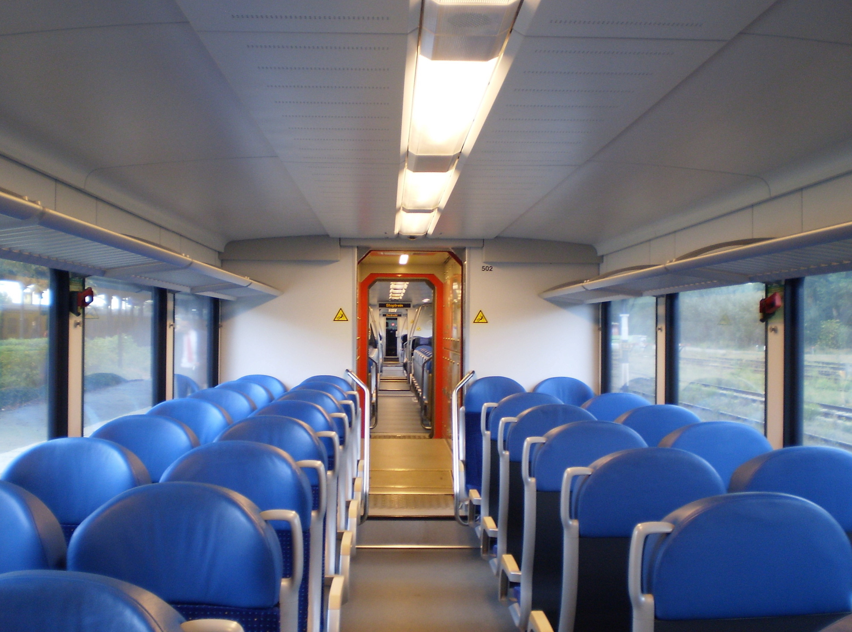 Arriva Spurt inside (MerwedeLingelijn)